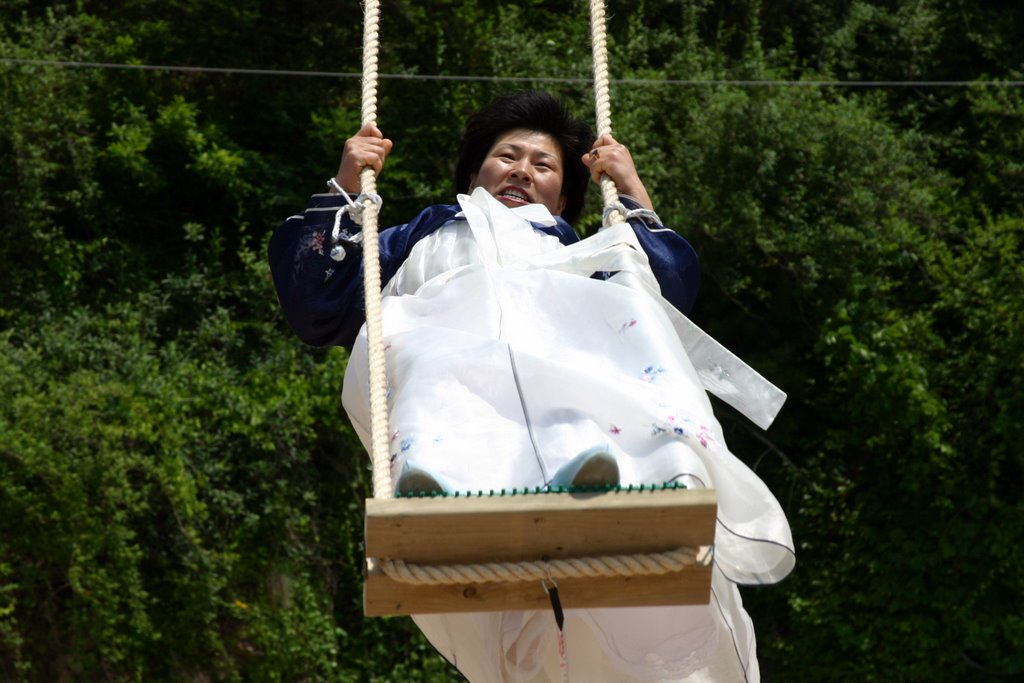 "The 5th Women Folk Plays for Dano Festival" held in a yard of the Andong Folk Museum in Andong City, Gyeongsangbuk-do, South Korea on June 11, 2007.